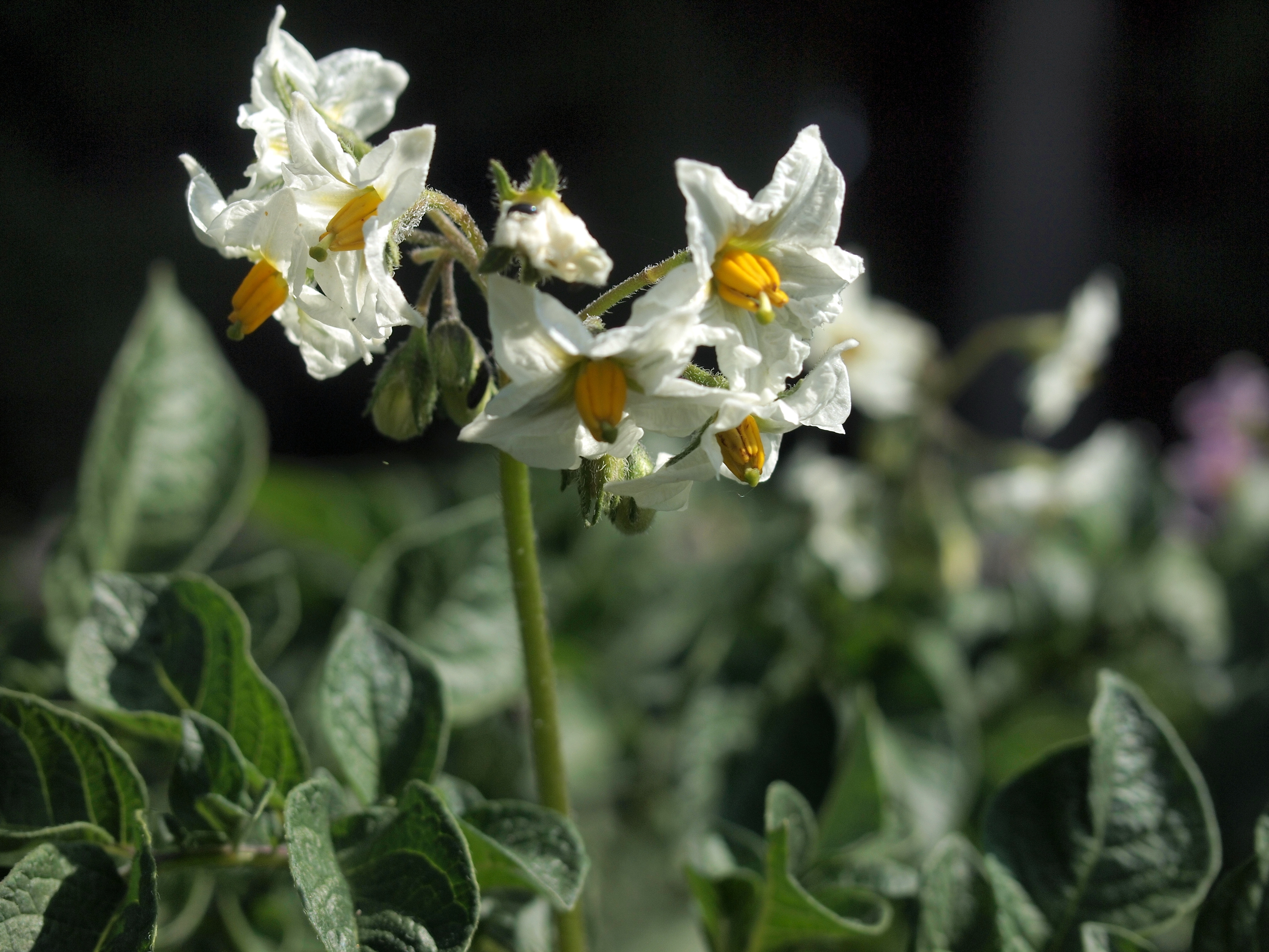 This potato-picture was taken by Ordercrazy with permission of Christian Müller from Aletshofen, municipality of Ettringen, Germany.